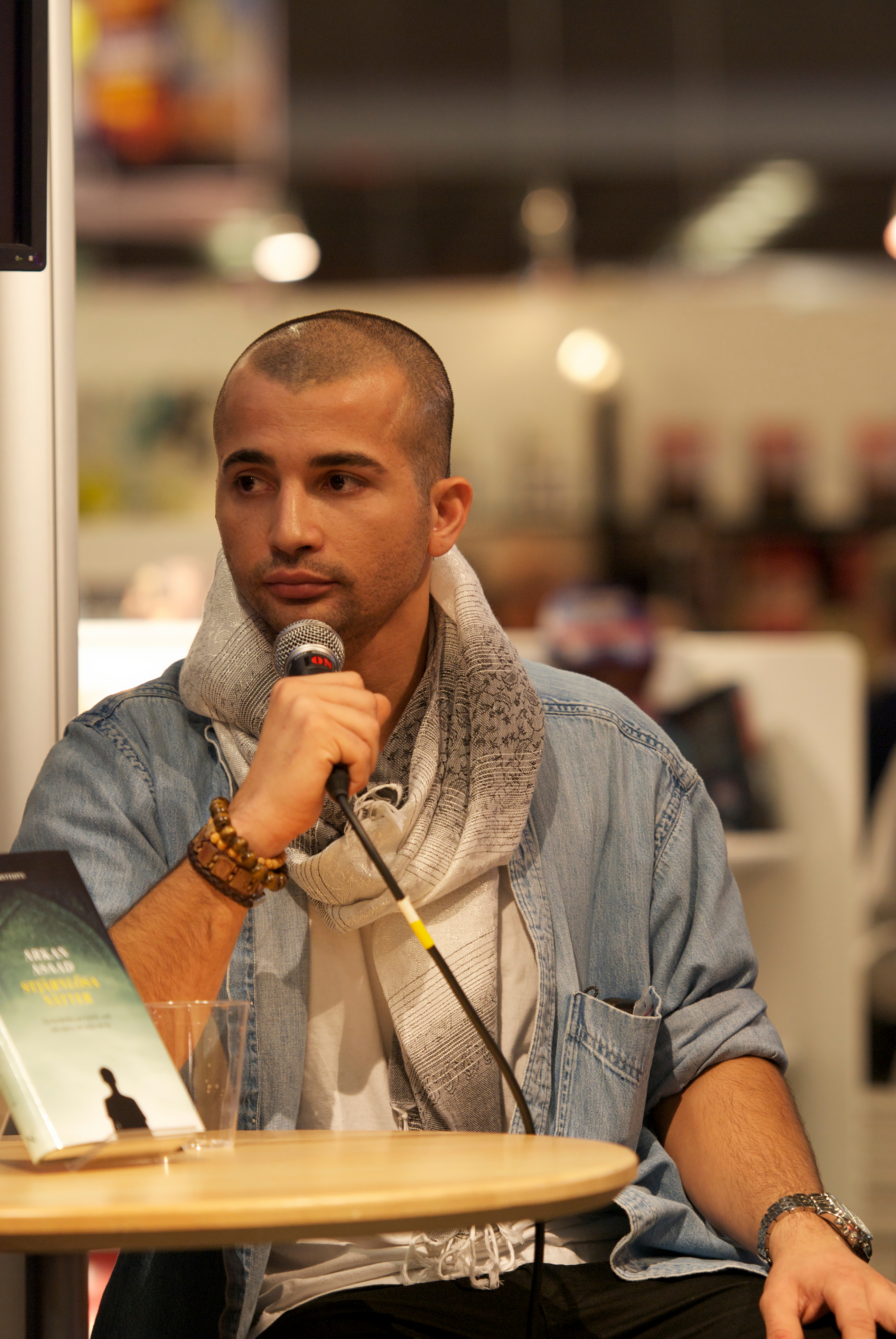 Arkan Asaad at Göteborg Book Fair 2011.